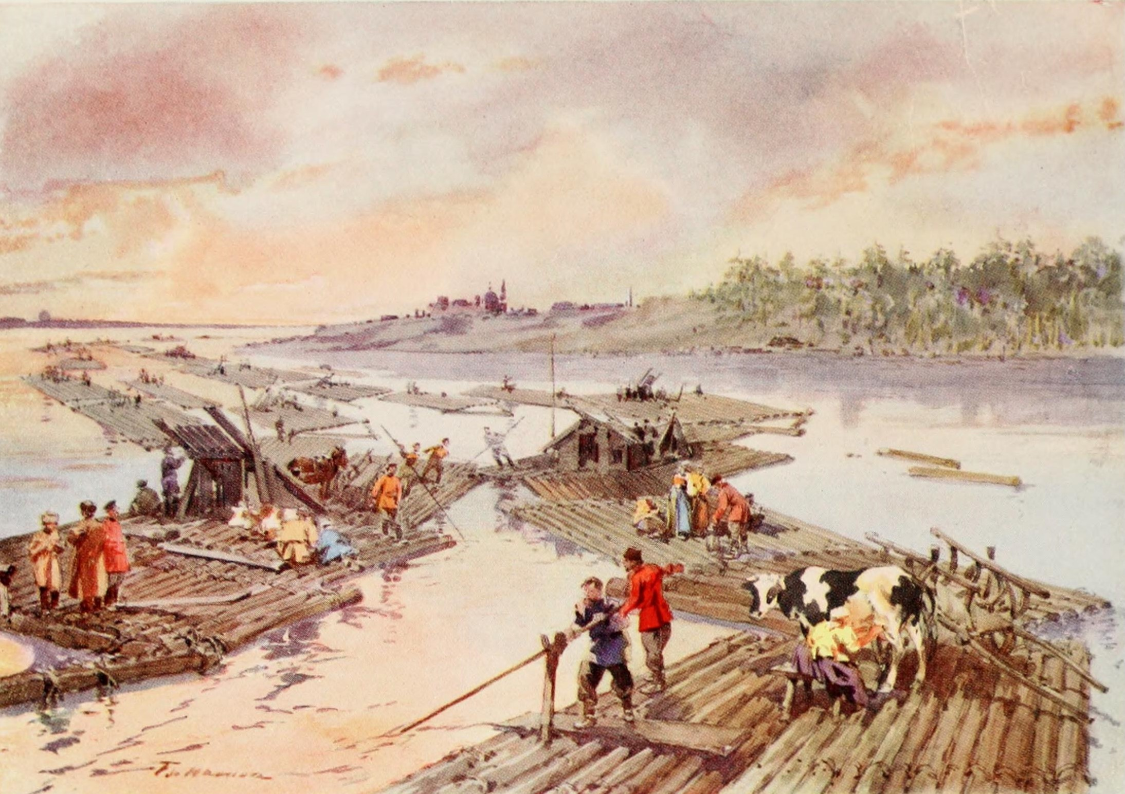 Rafts on the Volga, c. 1913. Painted by Frédéric de Haenen